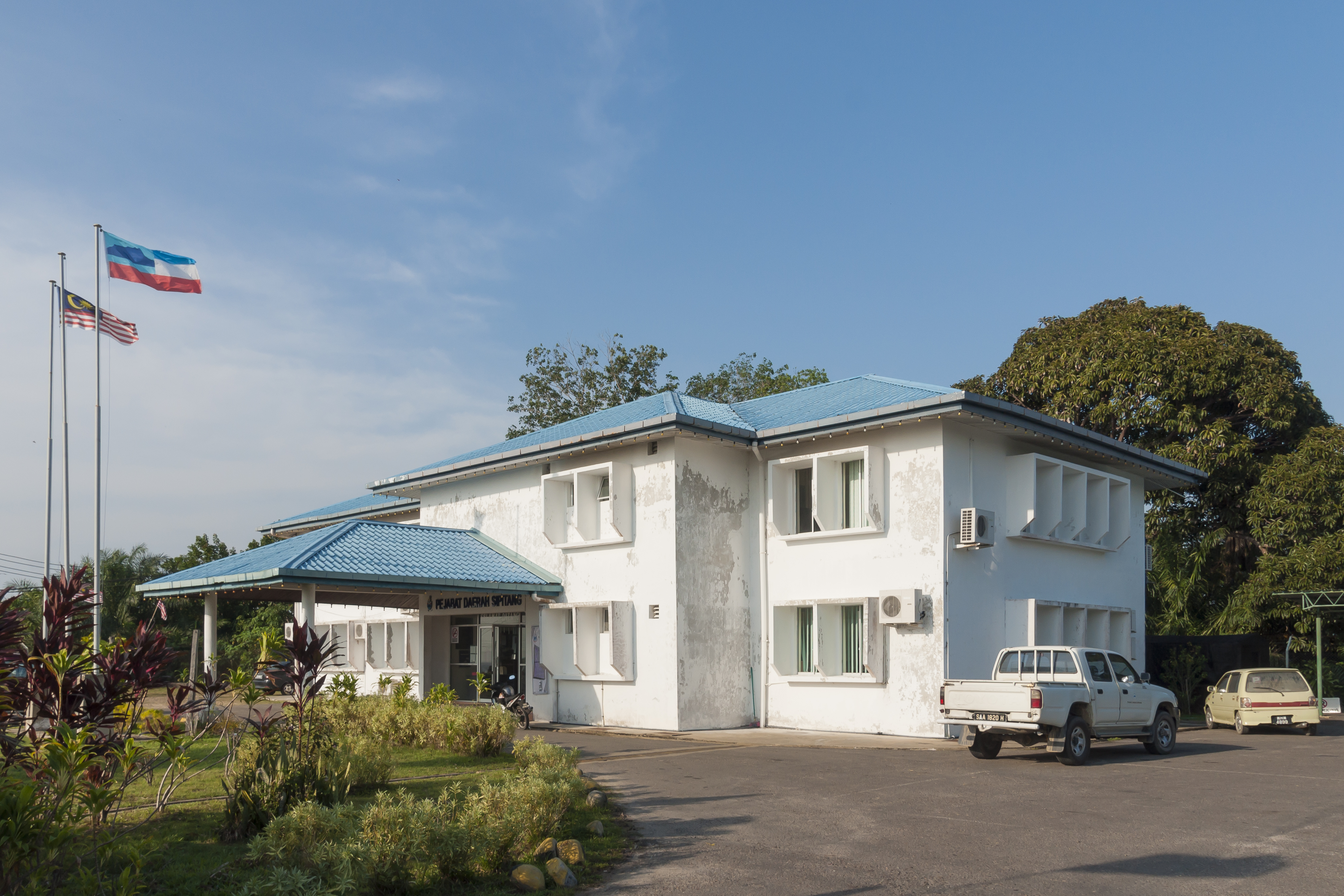 Sipitang, Sabah: Sipitang District Office (Pejabat Daerah Sipitang)